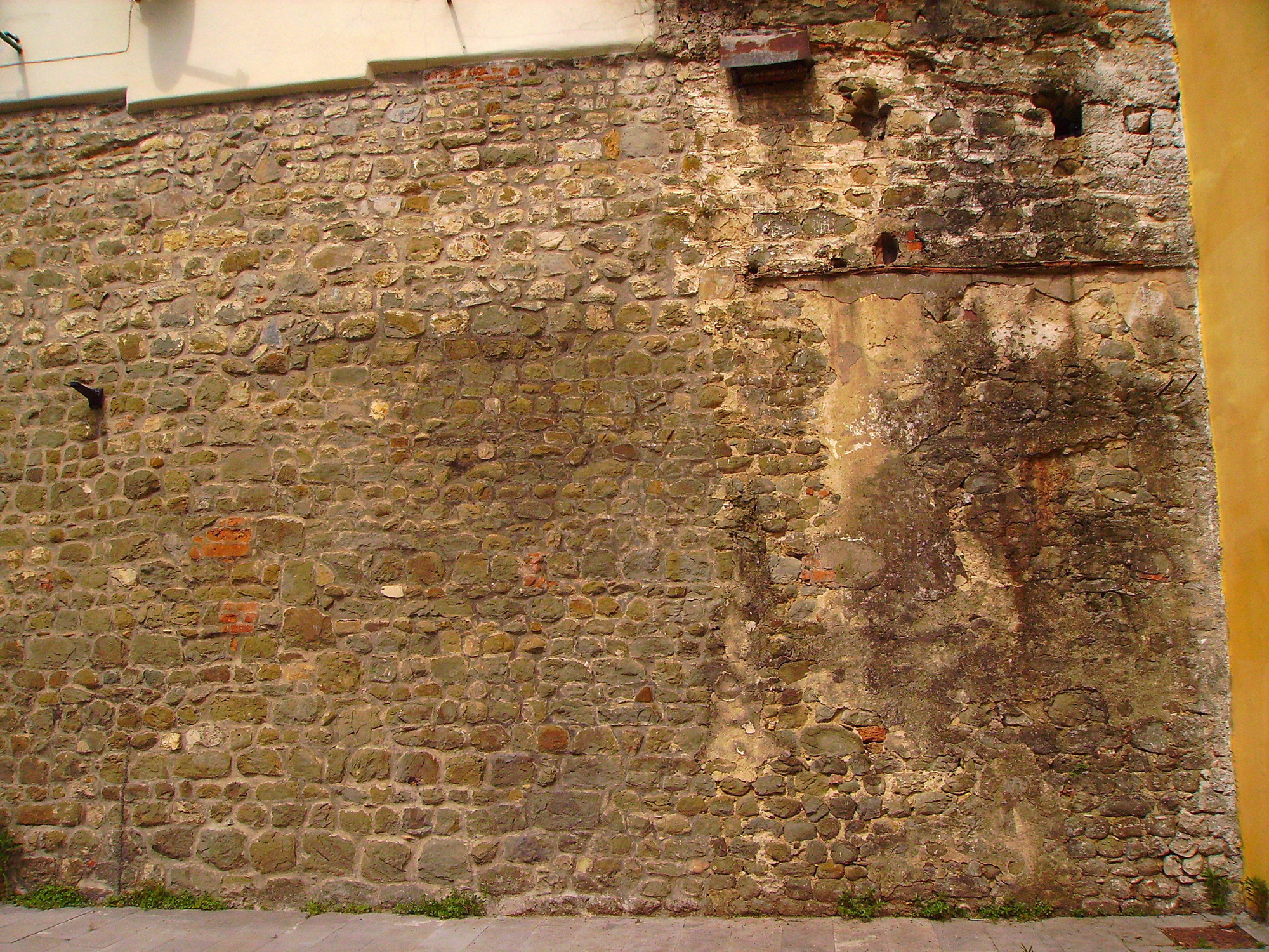 The ancient walls of Montevarchi, now part of a building